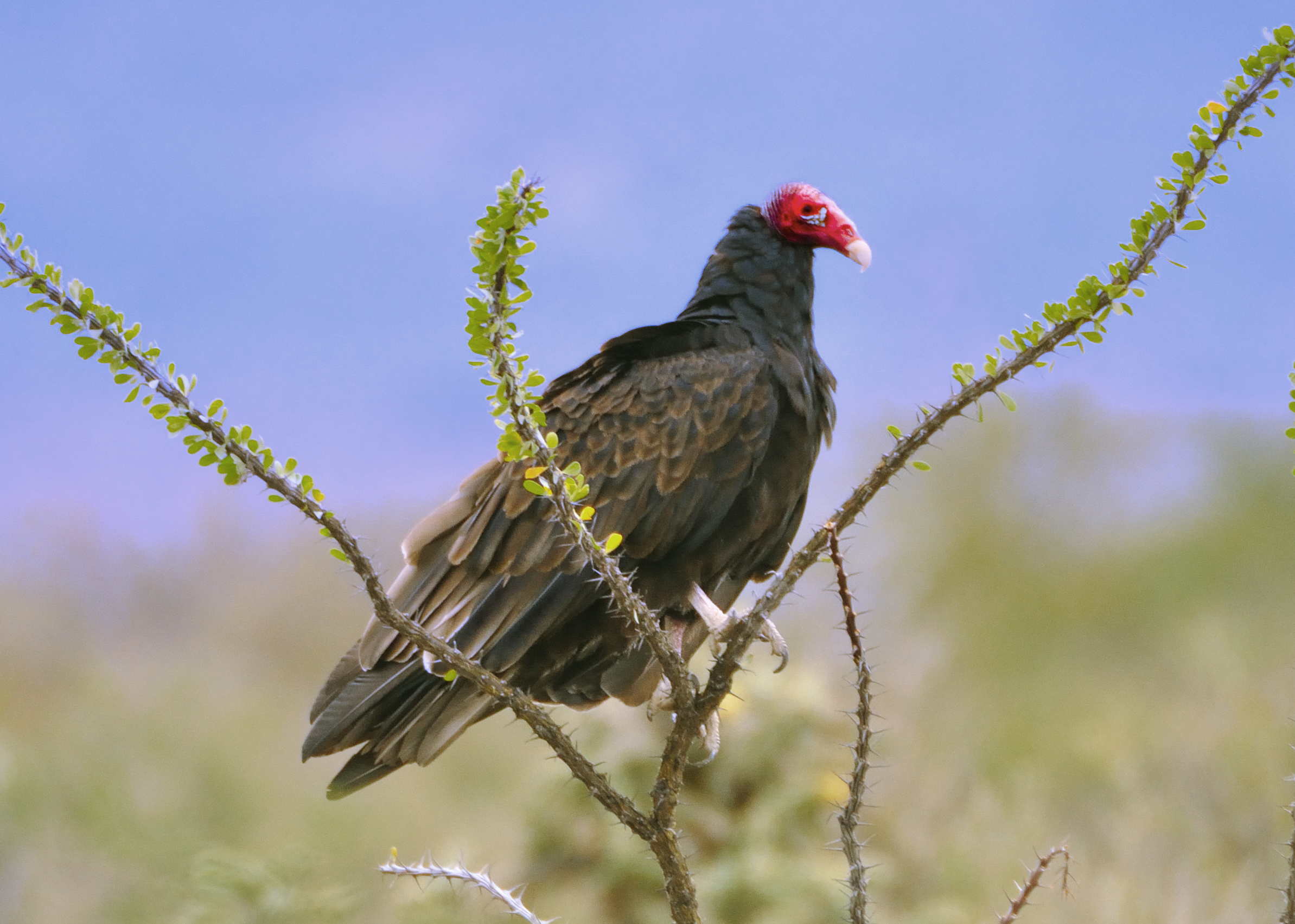 A Turkey Vulture at Jalpan de Serra, Querétaro, central Mexico. This bird has just finished its meal, which was a roadkill rodent.